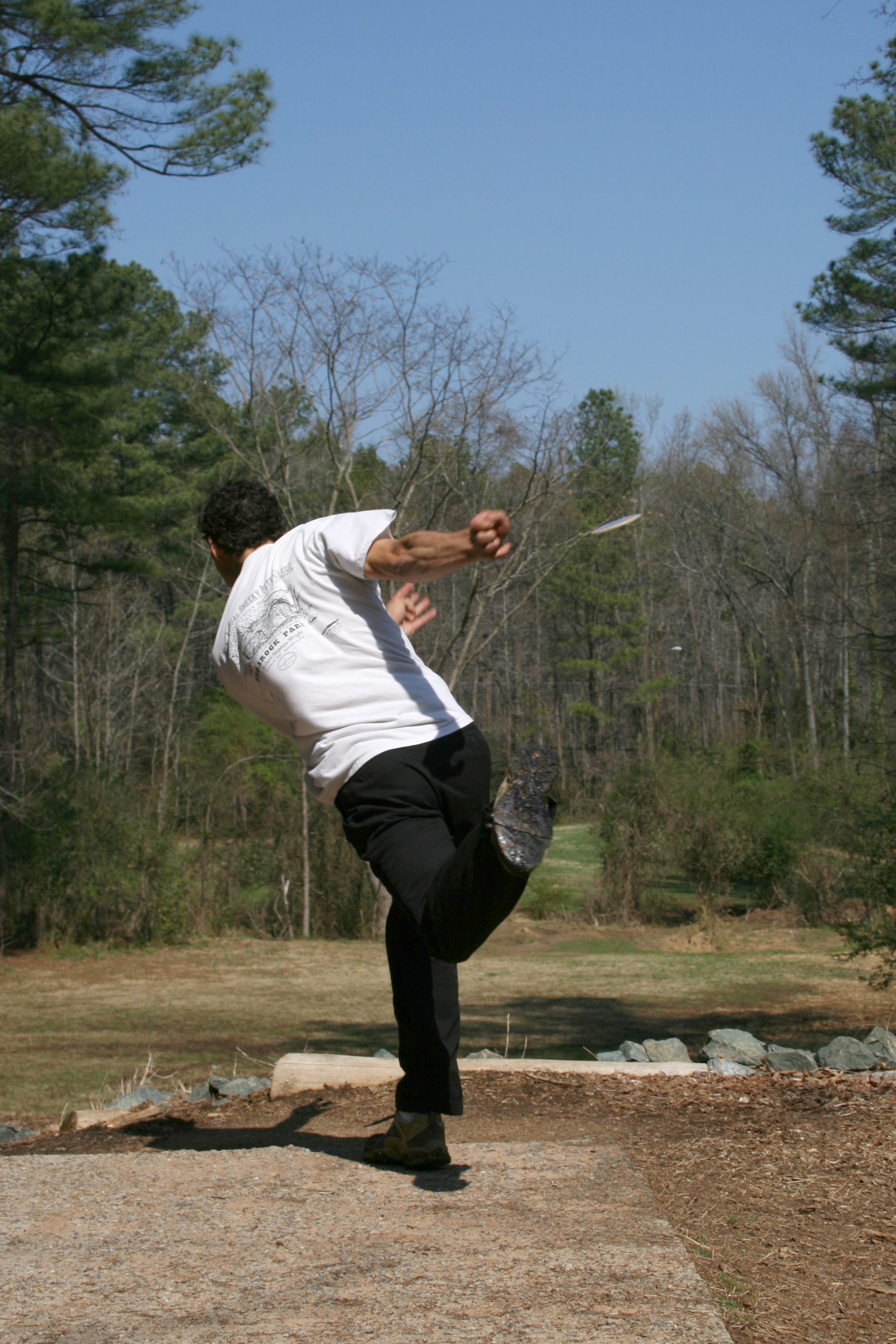 A disc golfer tees off at the UNC Outdoor Recreation Center in Chapel Hill, North Carolina.